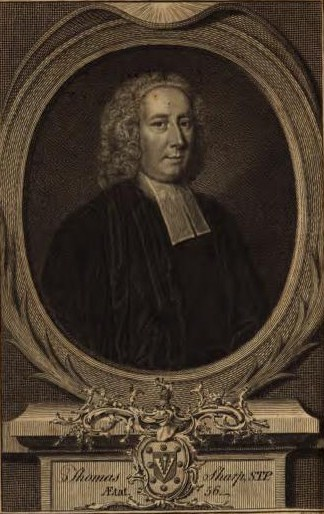 Portrait of Thomas Sharp (1693–1758), English churchman.